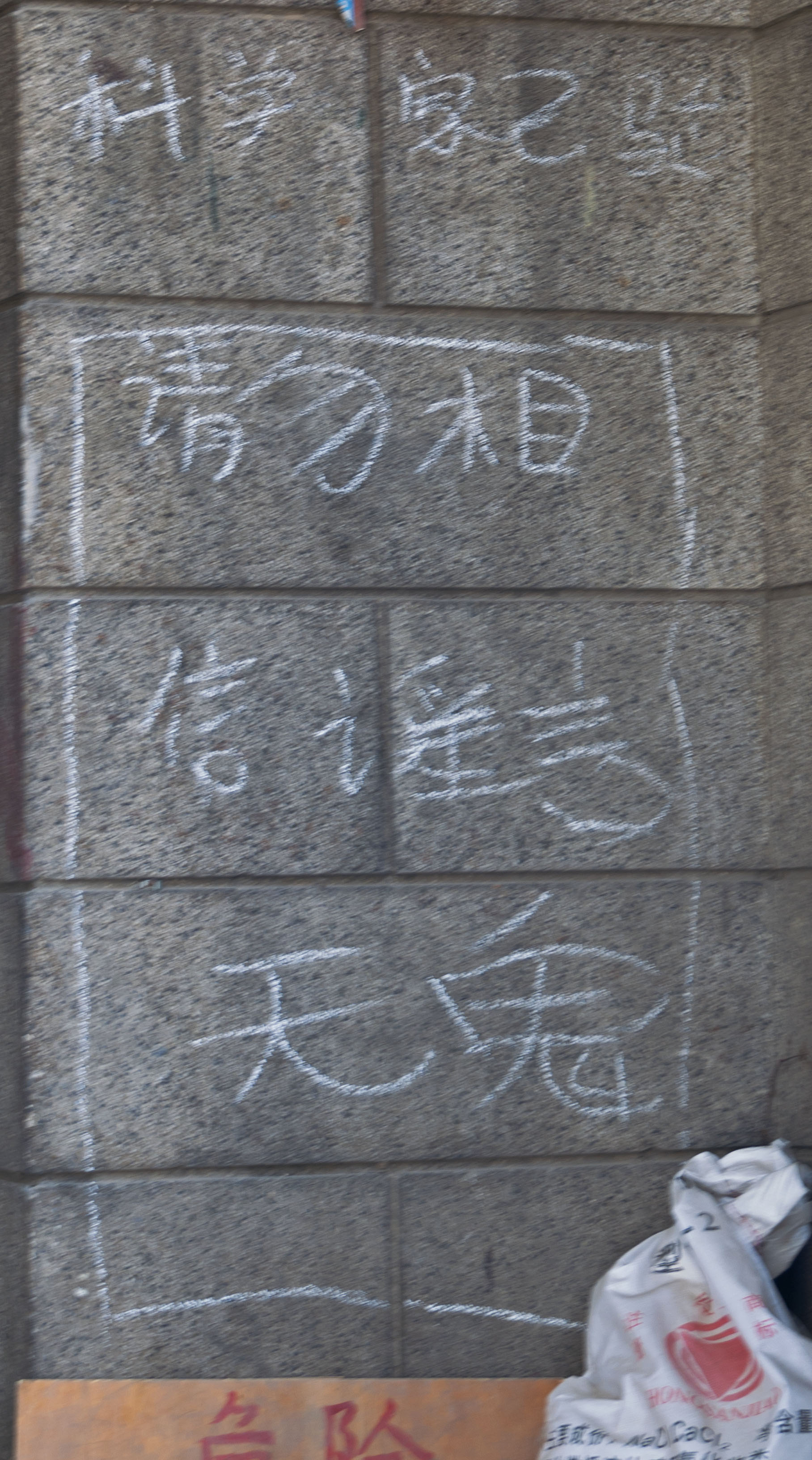 Chalked notice on Chaonei No. 81 in Chinese, warning of ghosts in the house. Original text: "请勿相信谎言 无鬼" (Please do not believe lies, there are no ghosts)